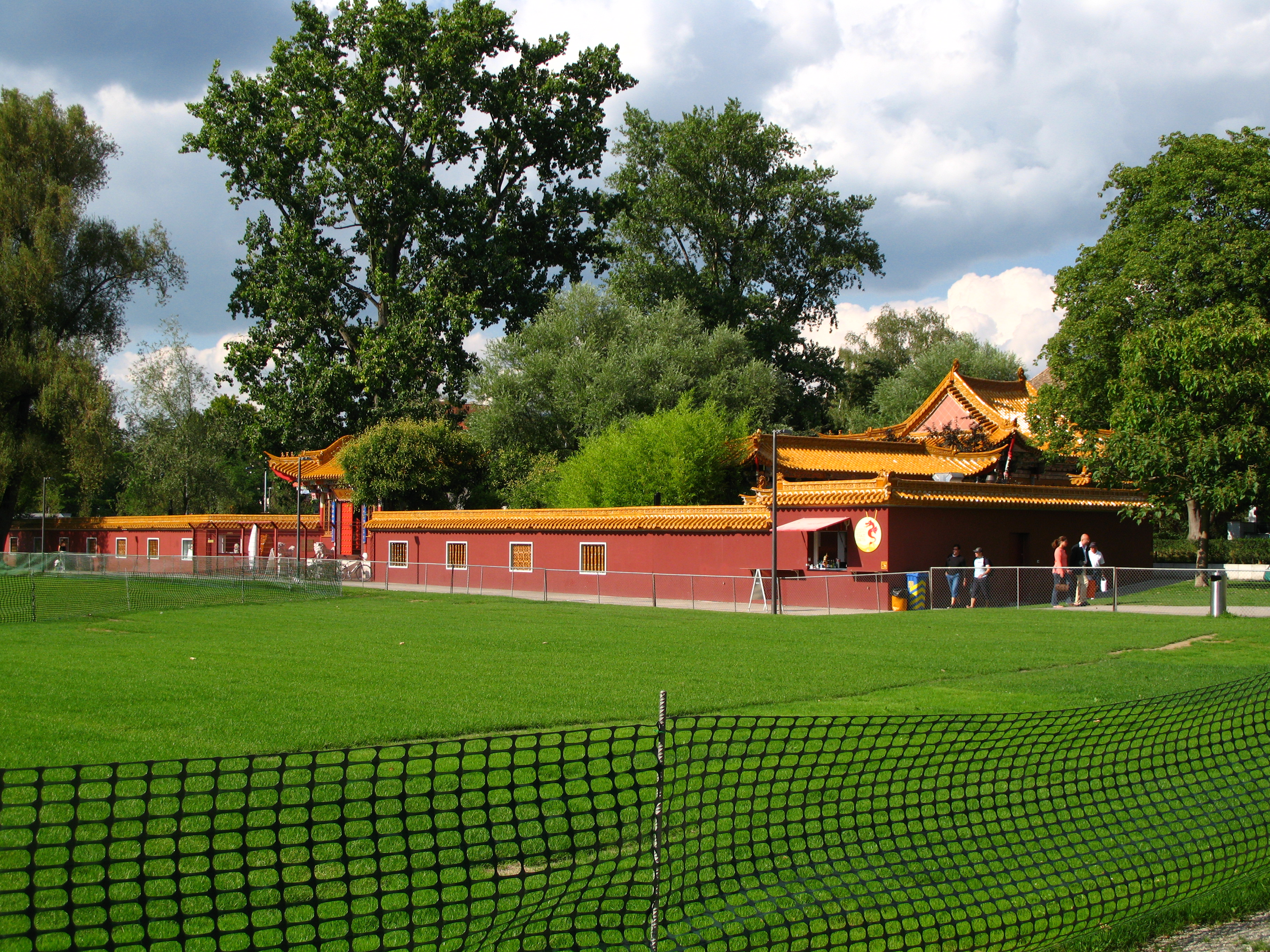 Chinese Garden Zürich, Zürich, Switzerland